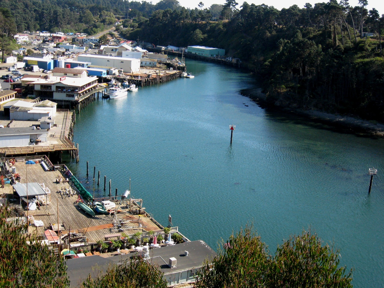 The harbor at the mouth of the Noyo River, on the south end of the town of Fort Bragg, California.